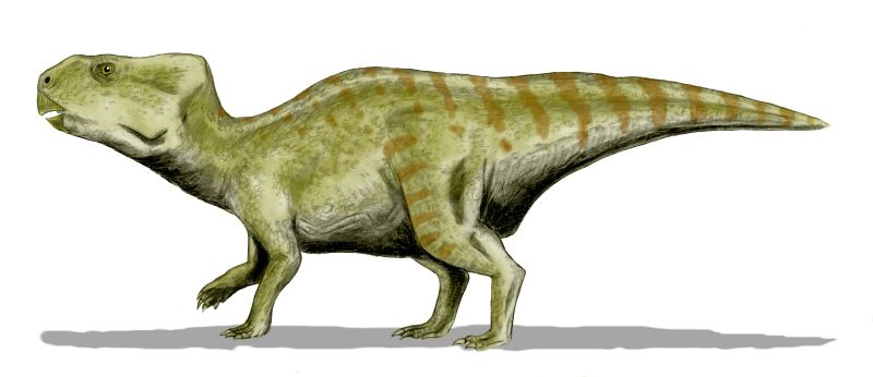 Auroraceratops rugosus, a ceratopsian from the Early Cretaceous of China, pencil drawing, digital coloring